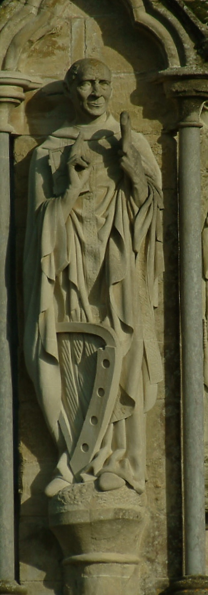 A statue of St. Aldhelm on the West Front of Salisbury Cathedral, UK.